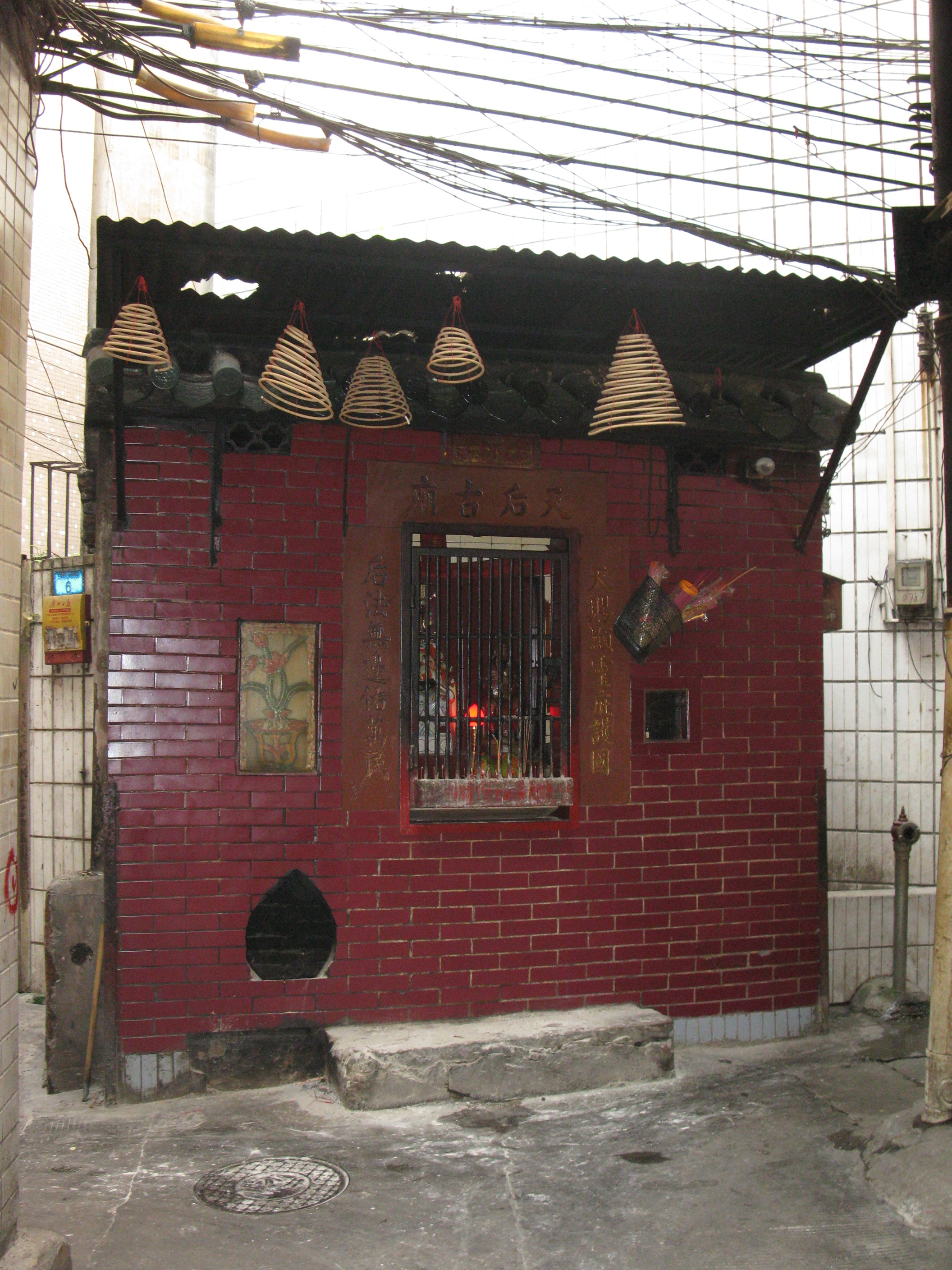 Tin Hau Temple (Niang Ma Temple), Shipai Village, Guangzhou, China